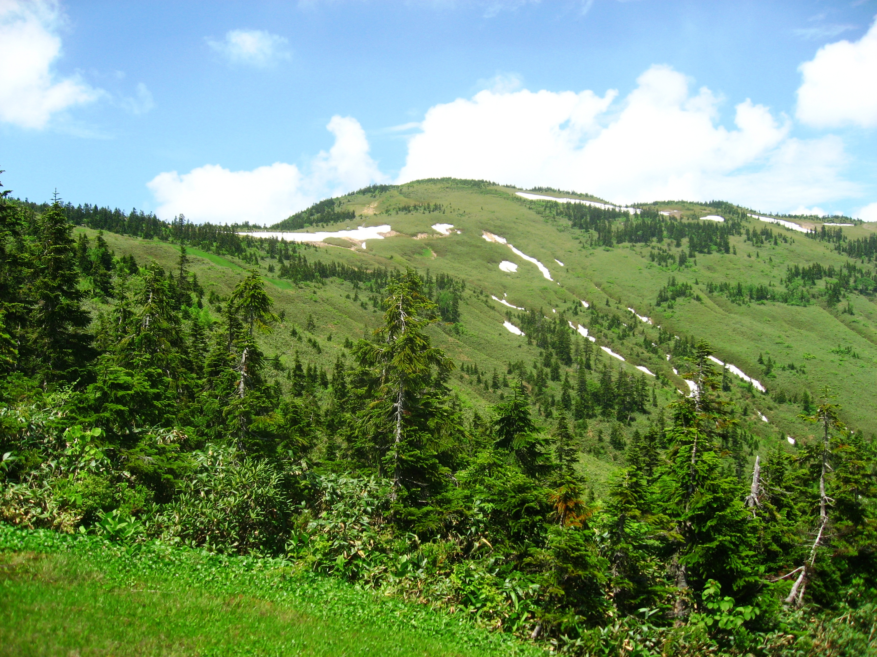 Mt. Aizu-Komagatake, Fukushima pref., Japan